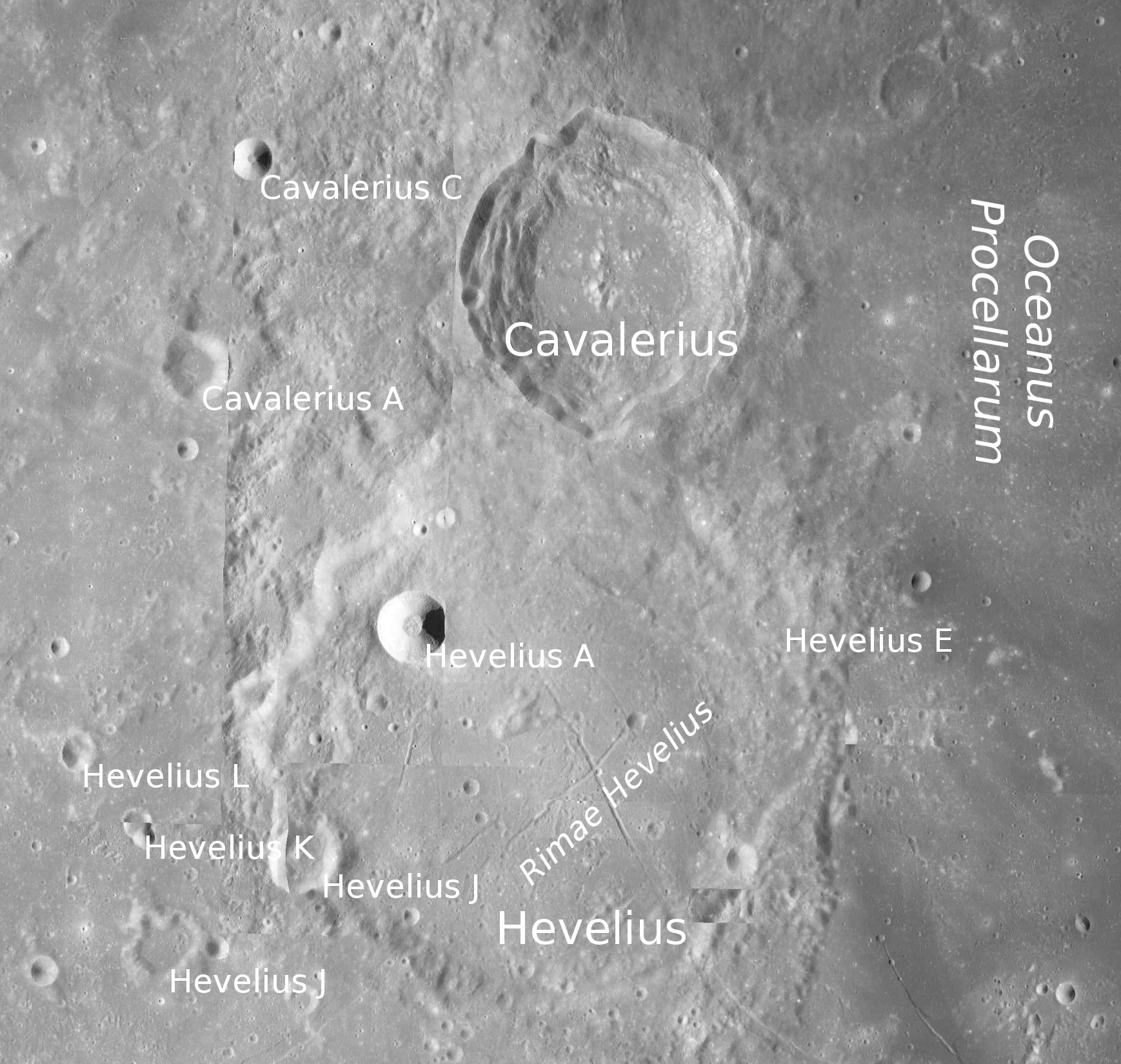 Craters Cavalerius and Hevelius (detail of LRO - WAC global moon mosaic; Mercator projection)